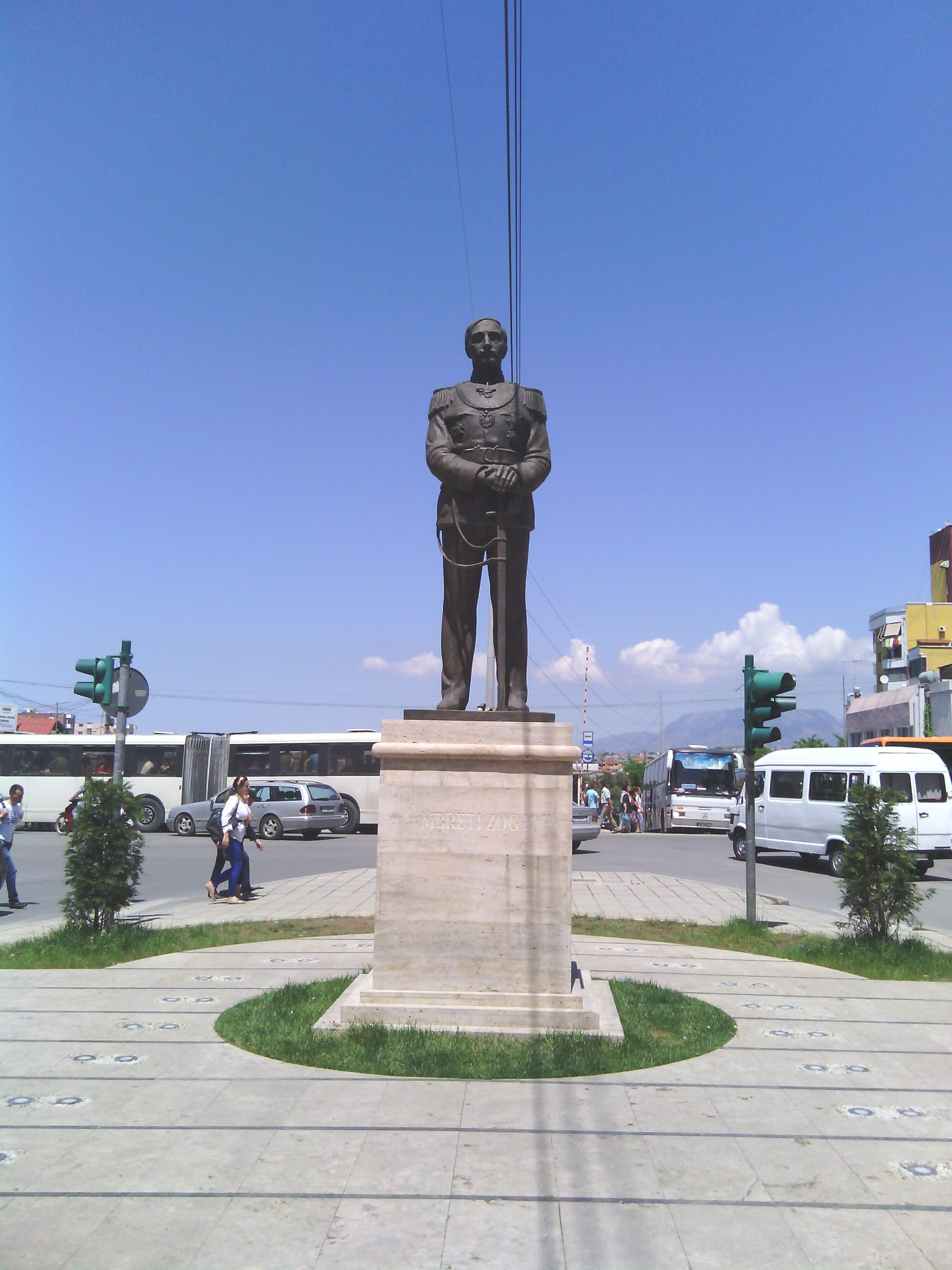 This picture was taken for the project "Tirana, let's get up!", implemented during the Balkans let's get up! Spring School in 2013.